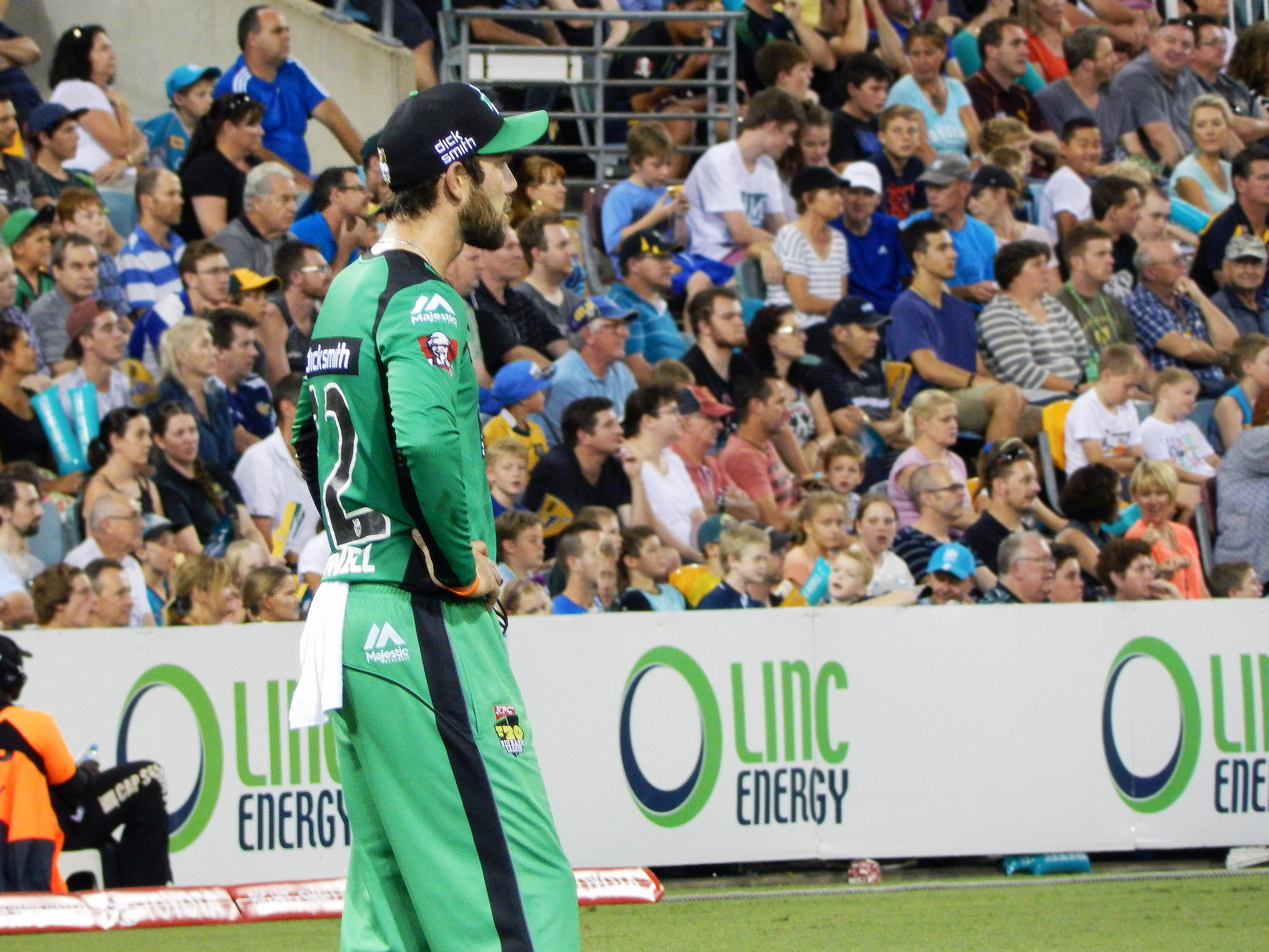 Brisbane Heat vs Melbourne Stars 28/12/2014 T20 at the Gabba, Brisbane.